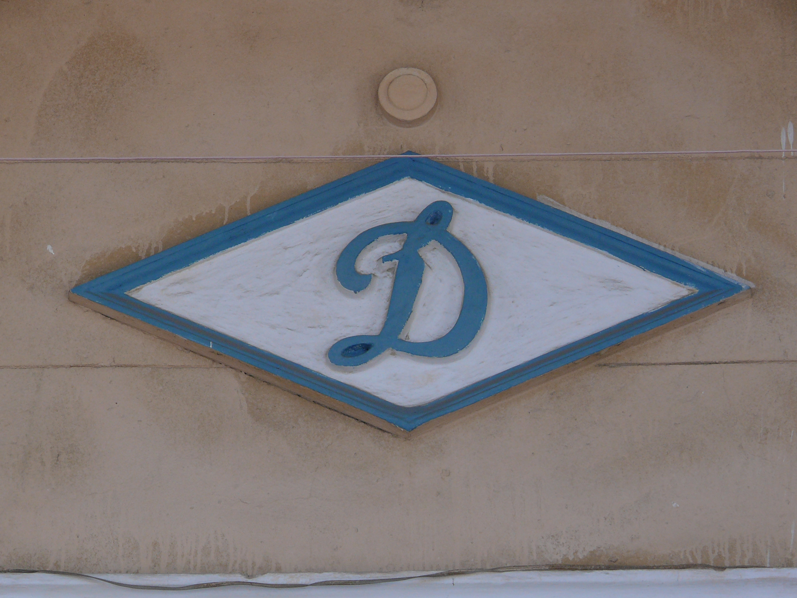 "Dinamo" USSR sport club emblem on Dinamovskaya Street, 5 (Dinamo Velotrack in Kharkov).